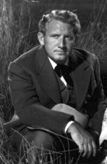 Cropped publicity still for the 1947 film The Sea of Grass, featuring Spencer Tracy. Such images were taken on set during filming, or as part of an organized photo-shoot, by a studio photographer. They were then disseminated to the media and the public to promote the film (see Film still). This is definitely a film still rather than a screenshot: if one views the full image, an exact moment like this never appears in the film and and in the bottom right hand corner, the remnants of a stock code can be seen. Public domain explanation It is unlikely that this image was secured with copyright protection, as stated by film induustry expert Gerald Mast in Film Study and the Copyright Law (1989) p. 87: "According to the old copyright act, such production stills were not automatically copyrighted as part of the film and required separate copyrights as photographic stills ... Most studios have never bothered to copyright these stills because they were happy to see them pass into the public domain, to be used by as many people in as many publications as possible." If there is any chance that the photograph was copyrighted, under the terms of the 1909 Copyright Act (which was law until 1978) it would have had to be renewed 28 years after publication. A search for copyright renewal records of 1974 ([1]) reveal no trace that this occurred.